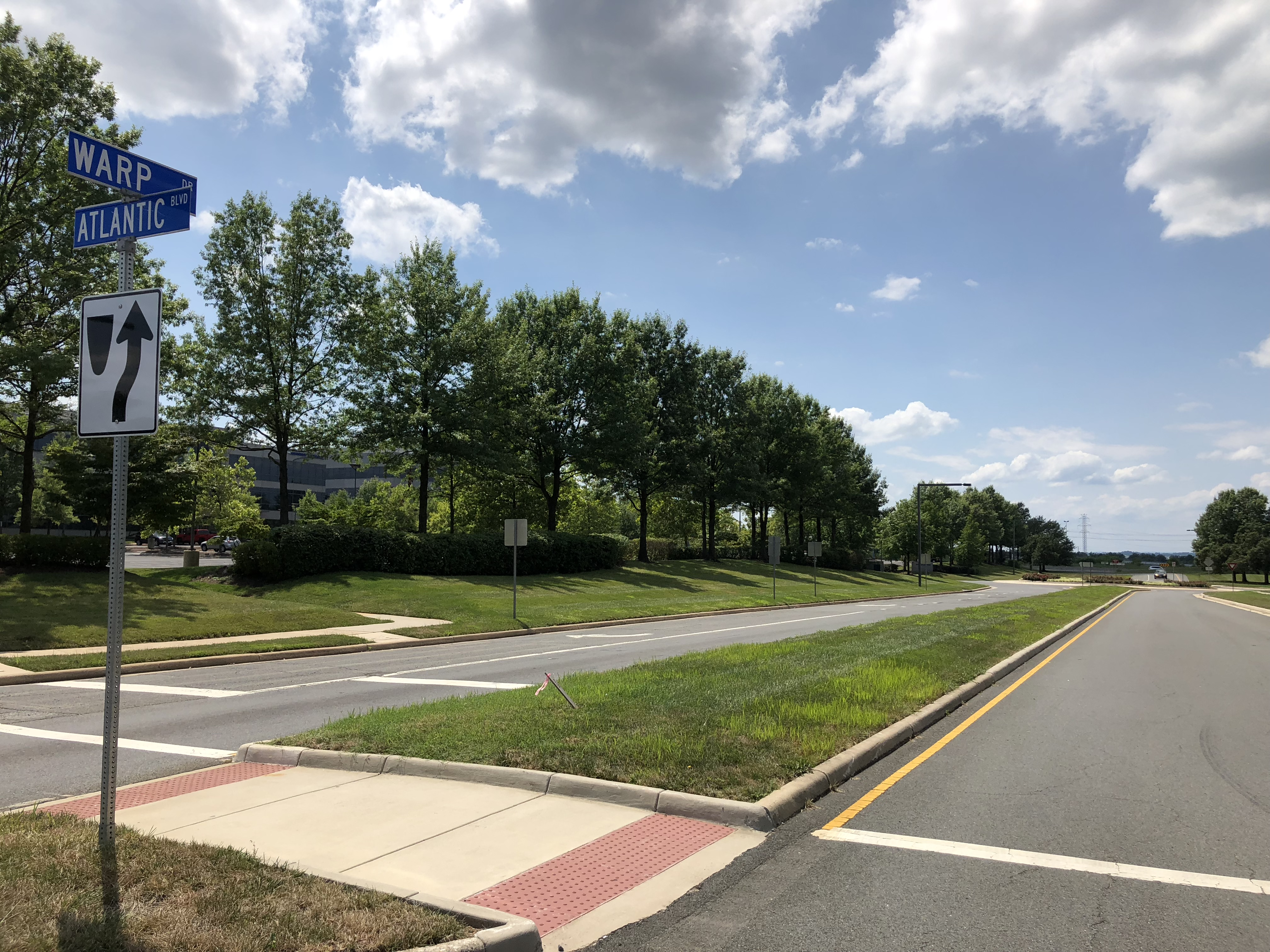 View west along Warp Drive at Virginia State Route 1902 (Atlantic Boulevard) in Sterling, Loudoun County, Virginia